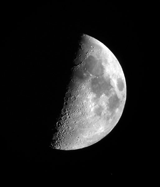 A photo of the moon last March